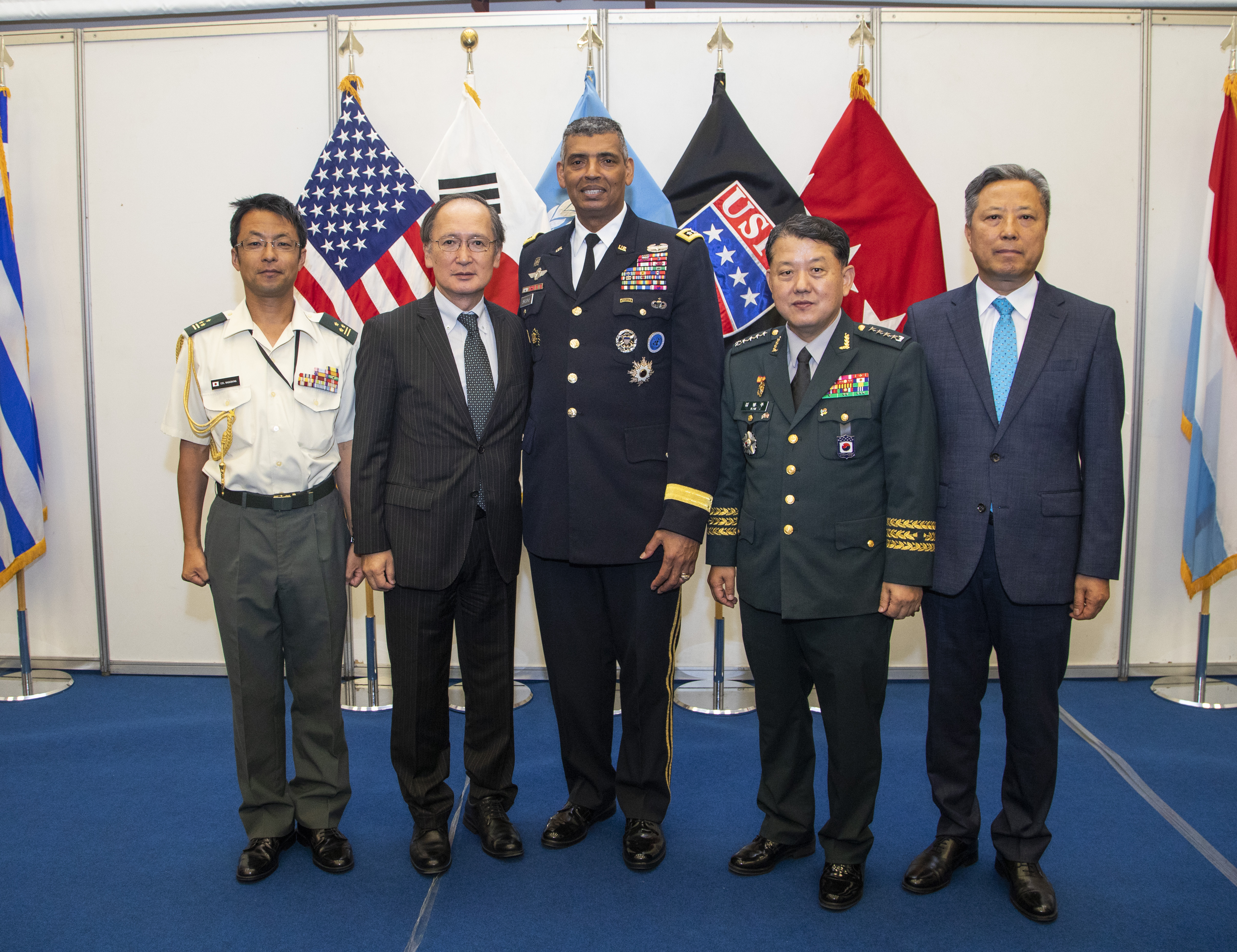 Opening of UNC/USFK Headquarters building